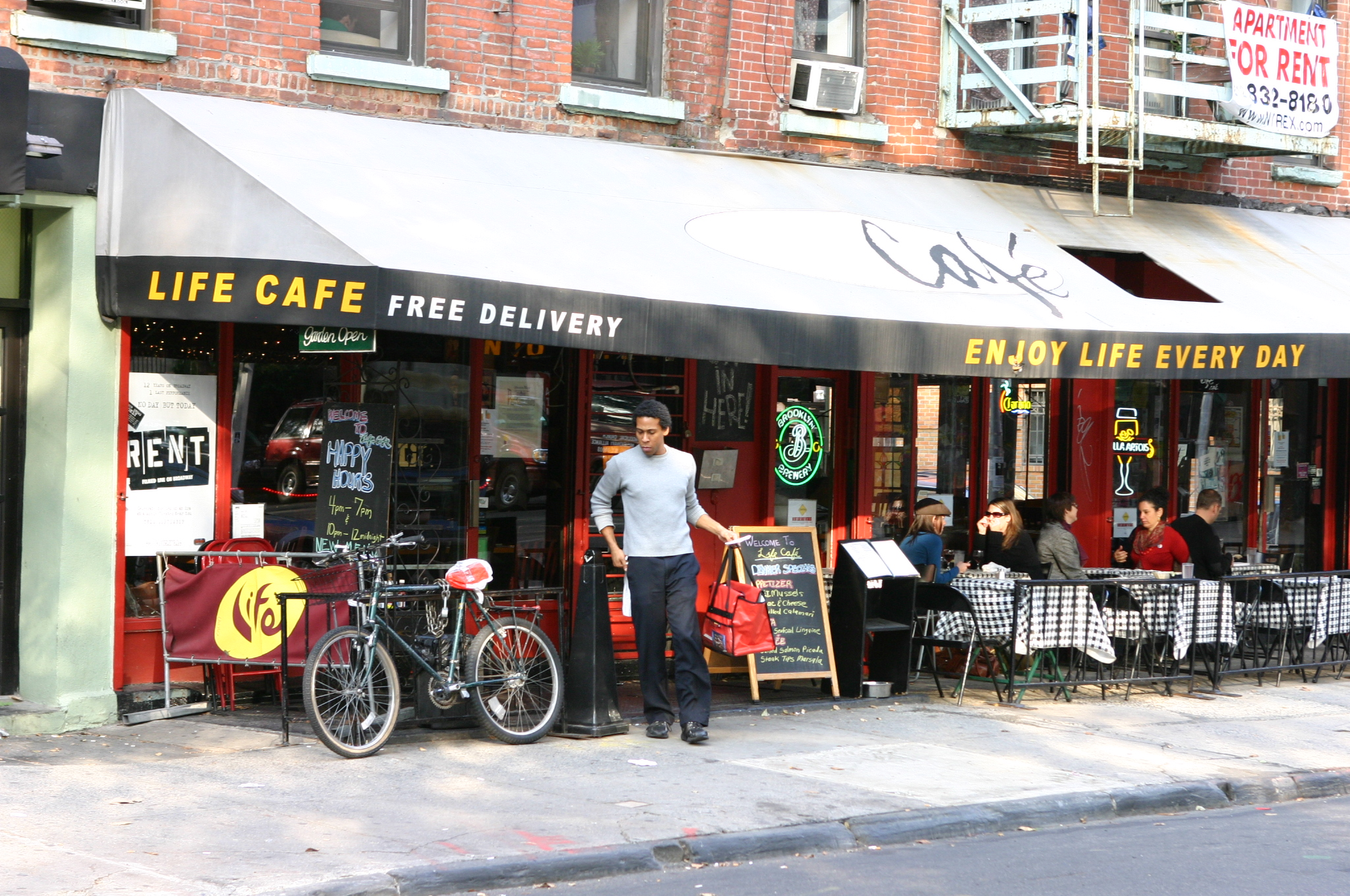 This photo is of Wikis Take Manhattan goal code F19, Life Cafe.